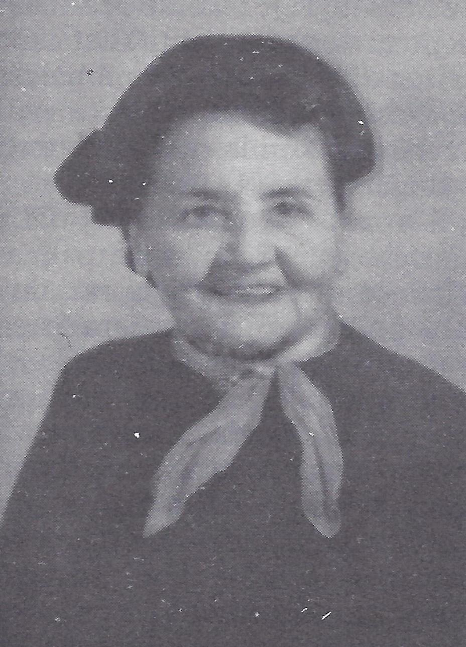 Mila Dimitrijević (1877-1972.)